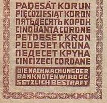 Detail of a 50 Austro-Hungarian Krone/korona banknote from 1914: indication of value in the languages of the ethnicities of the Austro-Hungarian Empire.